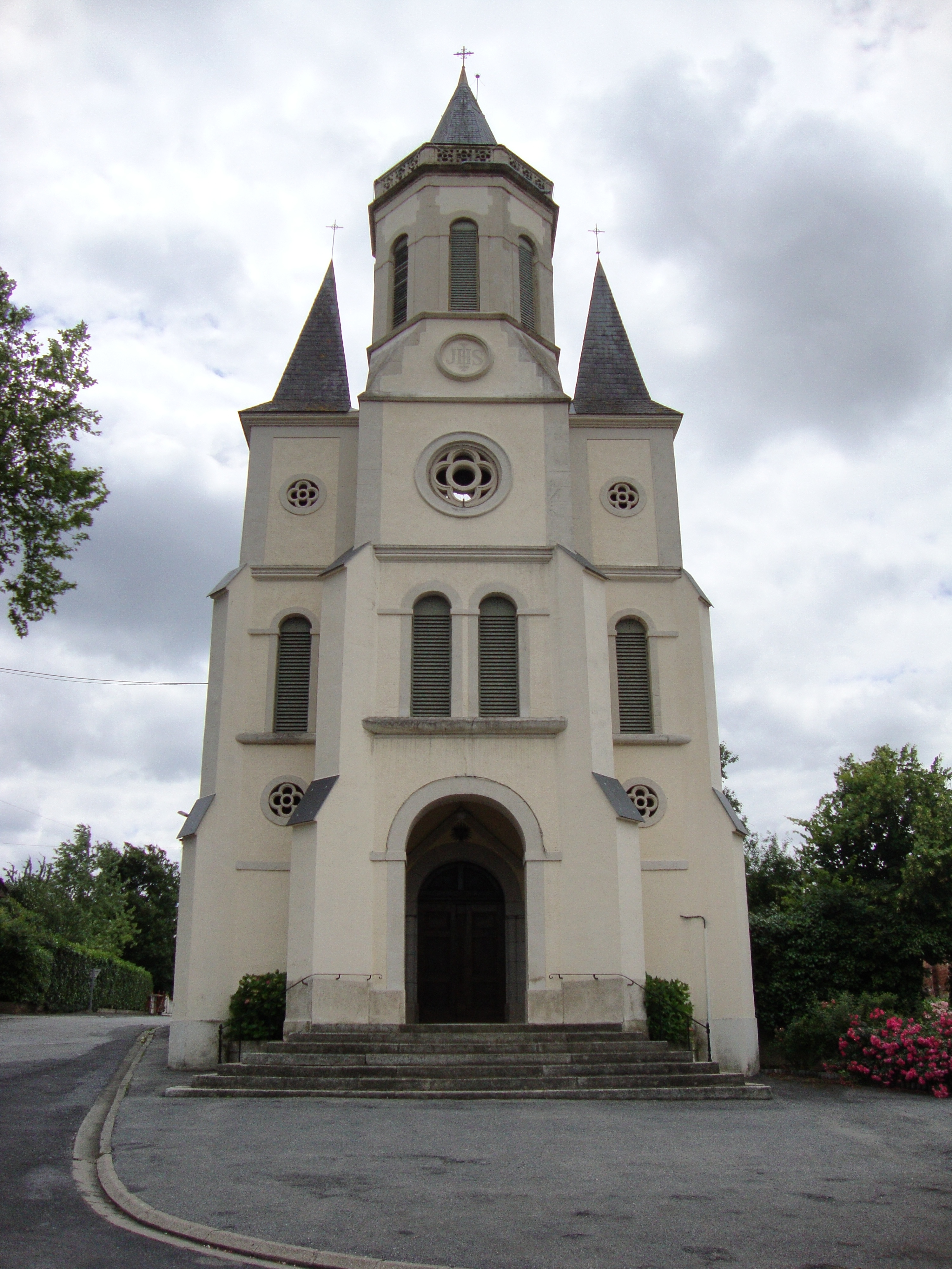 Valdurenque (Tarn, Fr) church